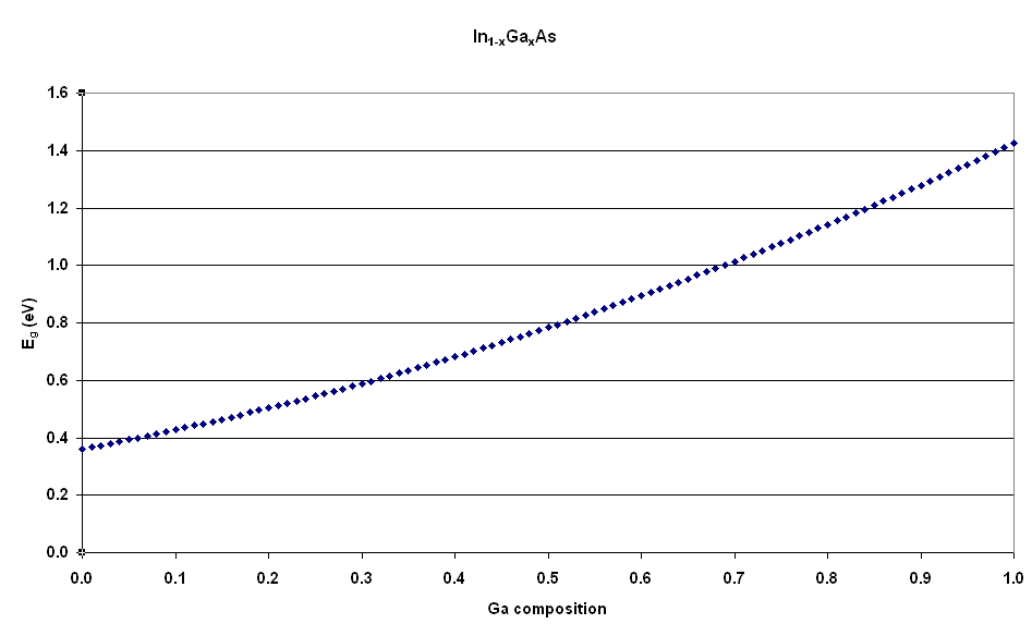 Energy gap in electron volts versus Ga fraction in In(1-x)Ga(x)As